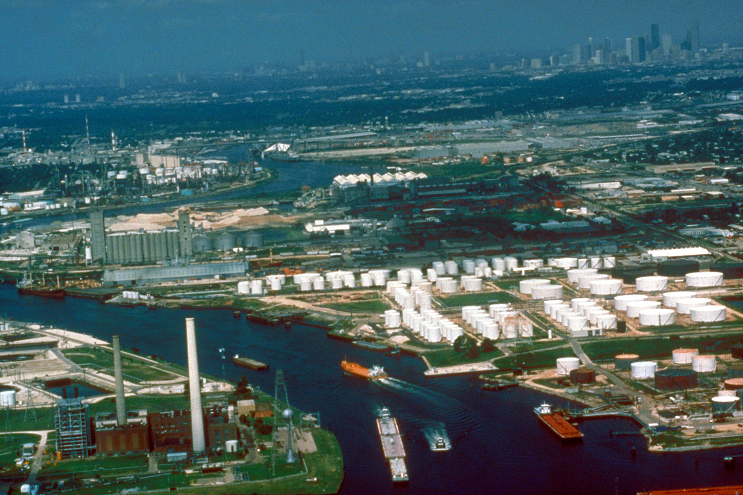 Aerial view of a small section of the Houston Ship Channel on Buffalo Bayou, which leads upstream directly into the city of Houston, Texas, USA. The downtown section of Houston can be seen at upper right. The city of Galena Park, Texas is at center right in this photograph. The U.S. Army Corps of Engineers dredges and maintains the channel for deepwater shipping. View is to the west. Coordinates: 29°43′29.64″N 95°13′50.88″W / 29.7249°N 95.2308°W